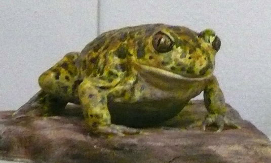 Replica of adult female Pelobates cultripes in Museu de Zoologia of Barcelona.